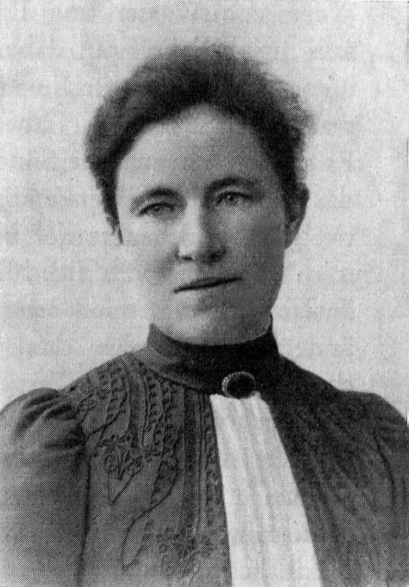 Photograh of Marcella O'Grady-Boveri in 1897